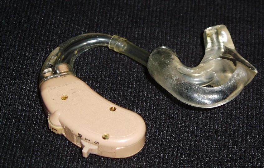 Behind the ear aid